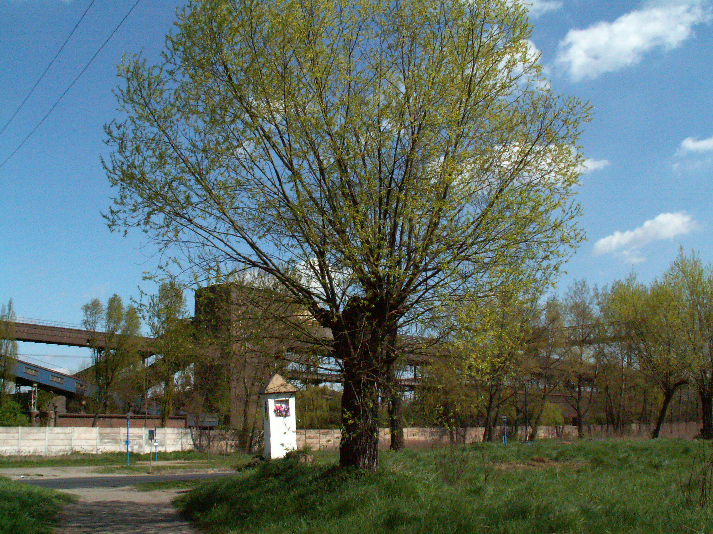 Steel mill (agglomerating plant) Nowa Huta, Krakow, Poland